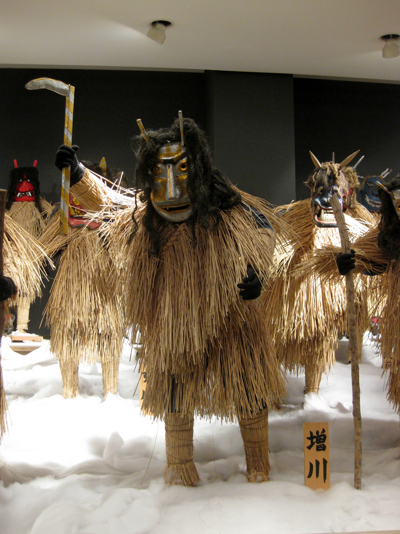 Wood and straw namahage at Namahage Museum. Oga, Akita, Japan.